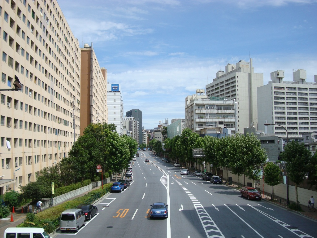 Gaien-Nishi Dori Street at Hiroo, Shibuya city, Tokyo